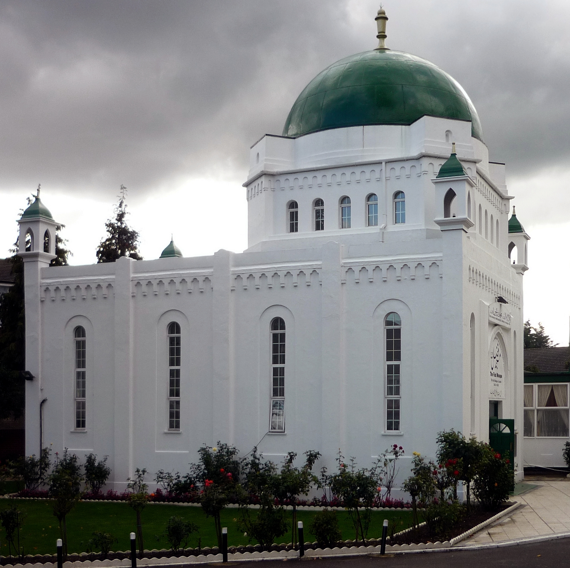 The Fazl-Mosque in London, also called "The London Mosque", was the first mosque in London